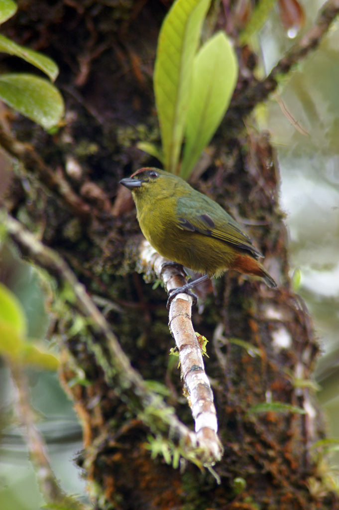 Olive-backed Euphonia, Gould's Euphonia